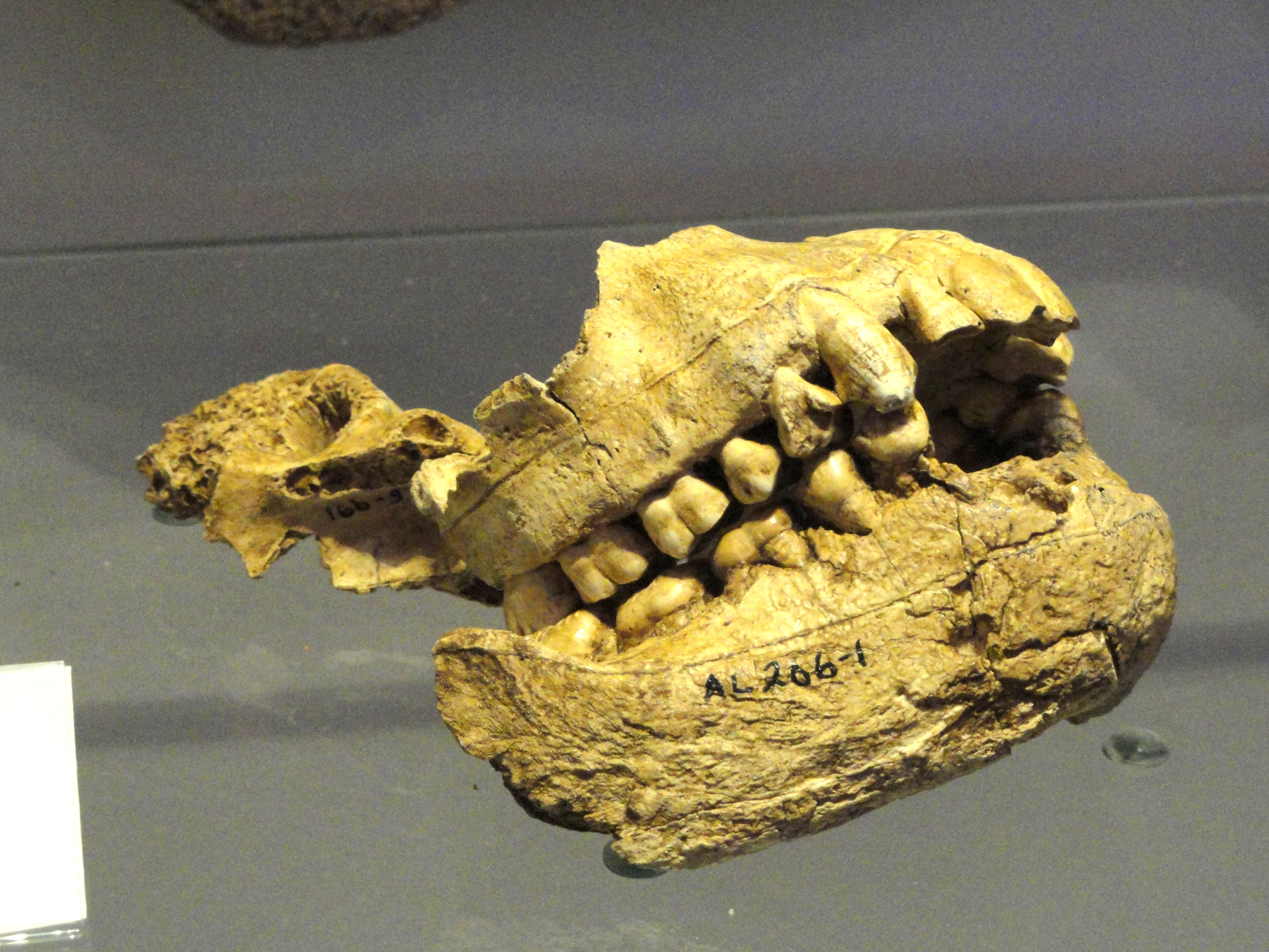 Exhibit in the Finnish Museum of Natural History, Helsinki, Finland. AL 206-1